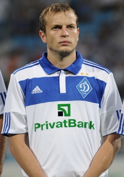 Ukrainian footballer Oleh Husyev